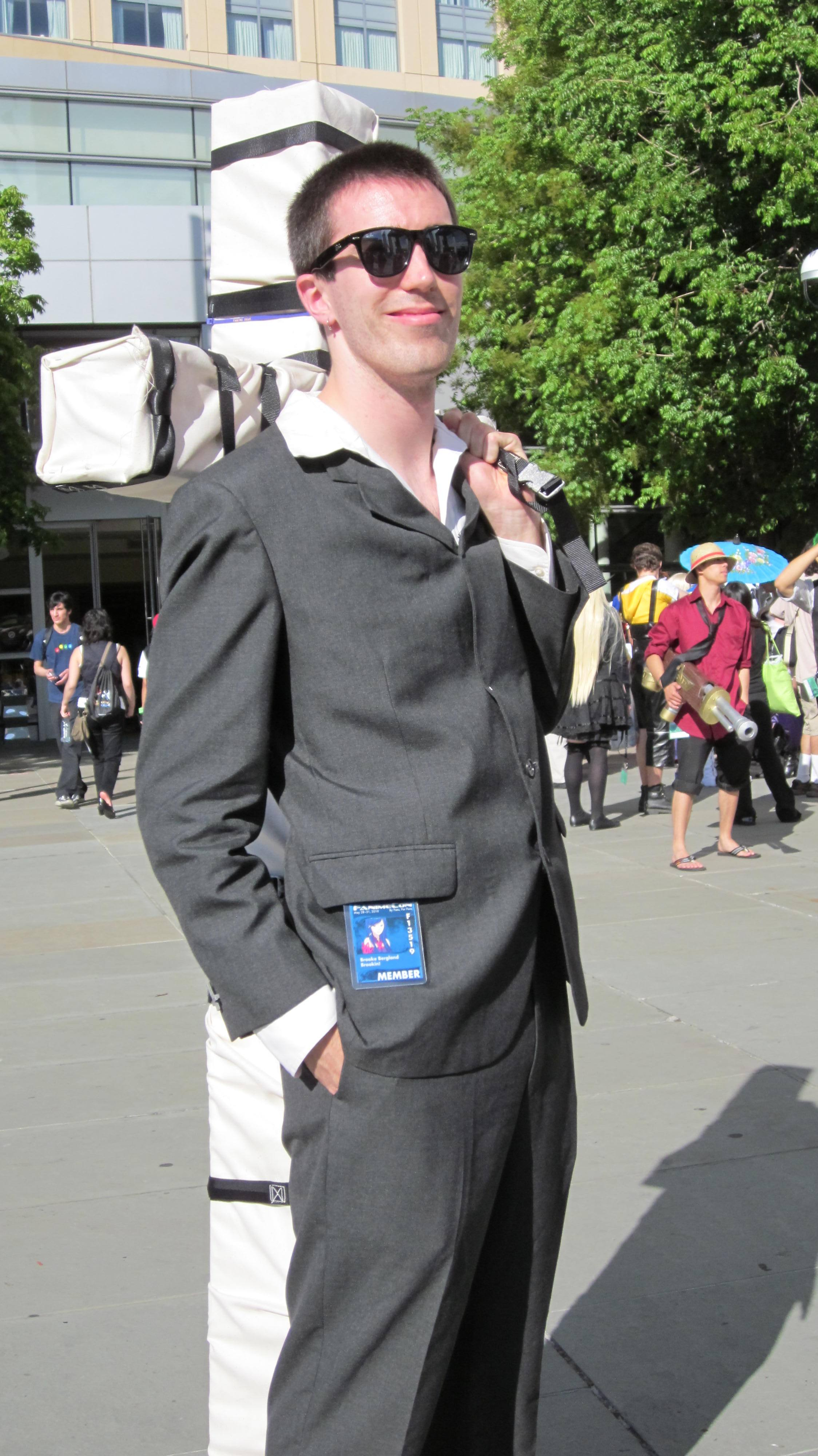 A cosplayer portraying Nicholas Wolfwood from Trigun at FanimeCon 2010 in San Jose, California.